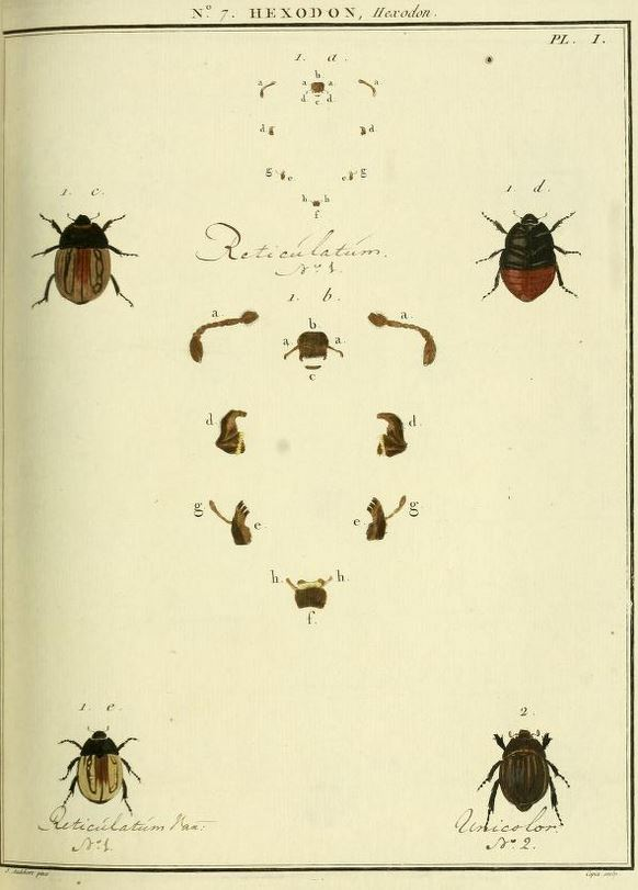 Beetles of genus Hexodon illustrated by Jean Baptiste Audebert